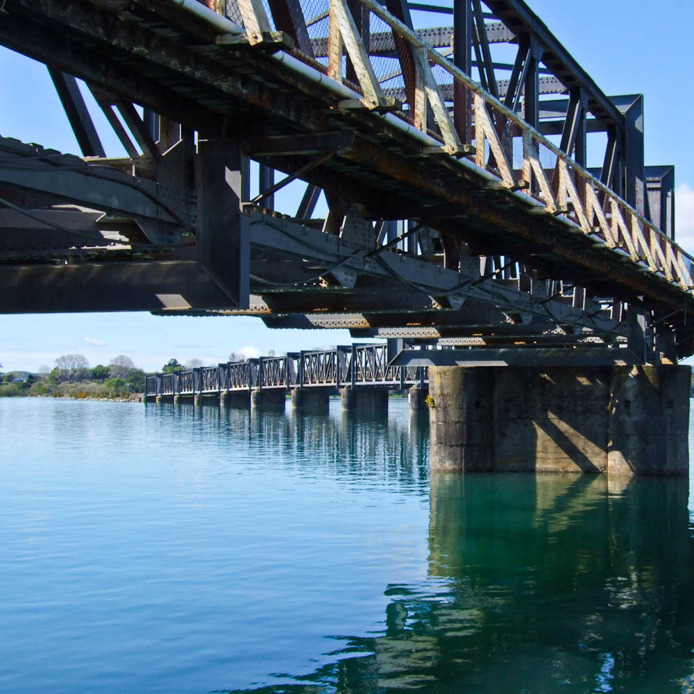 Under the Tauranga train bridge